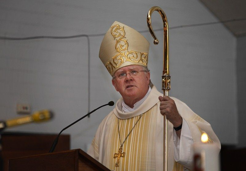 Archbishop of Canberra, cardinal Mark Coleridge, is leading a mass in Croatian Catholic mission in Canberra